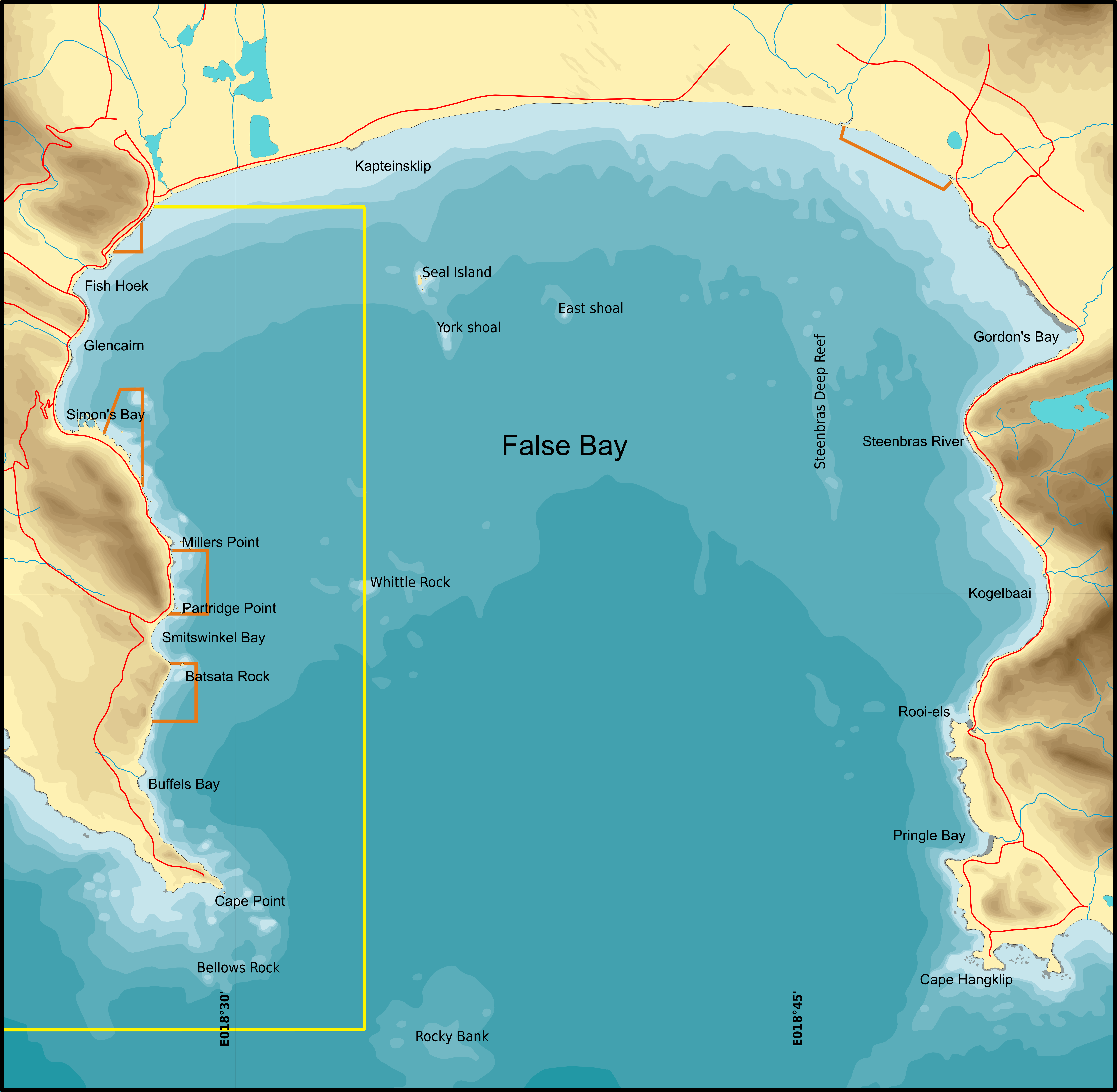 Bathymetry of False Bay with topography of surrounding land features and labels of major featuers